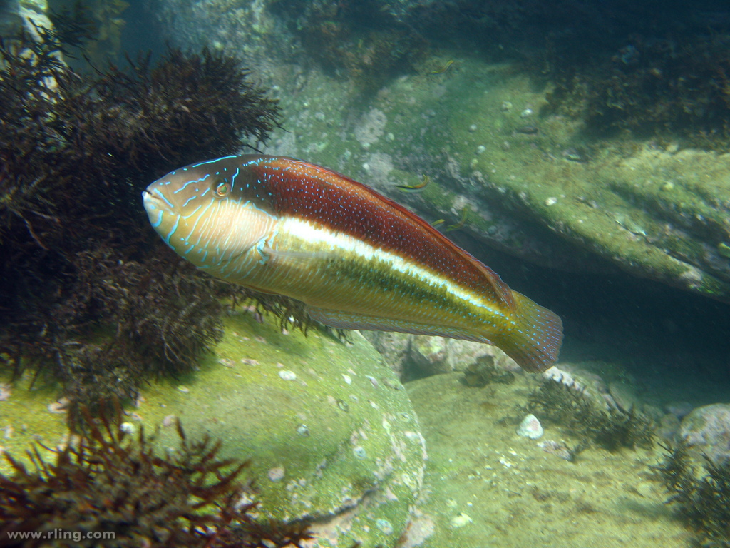 A Maori Wrasse (Ophthalmolepis lineolatus). Fairy Bower, Manly, NSW